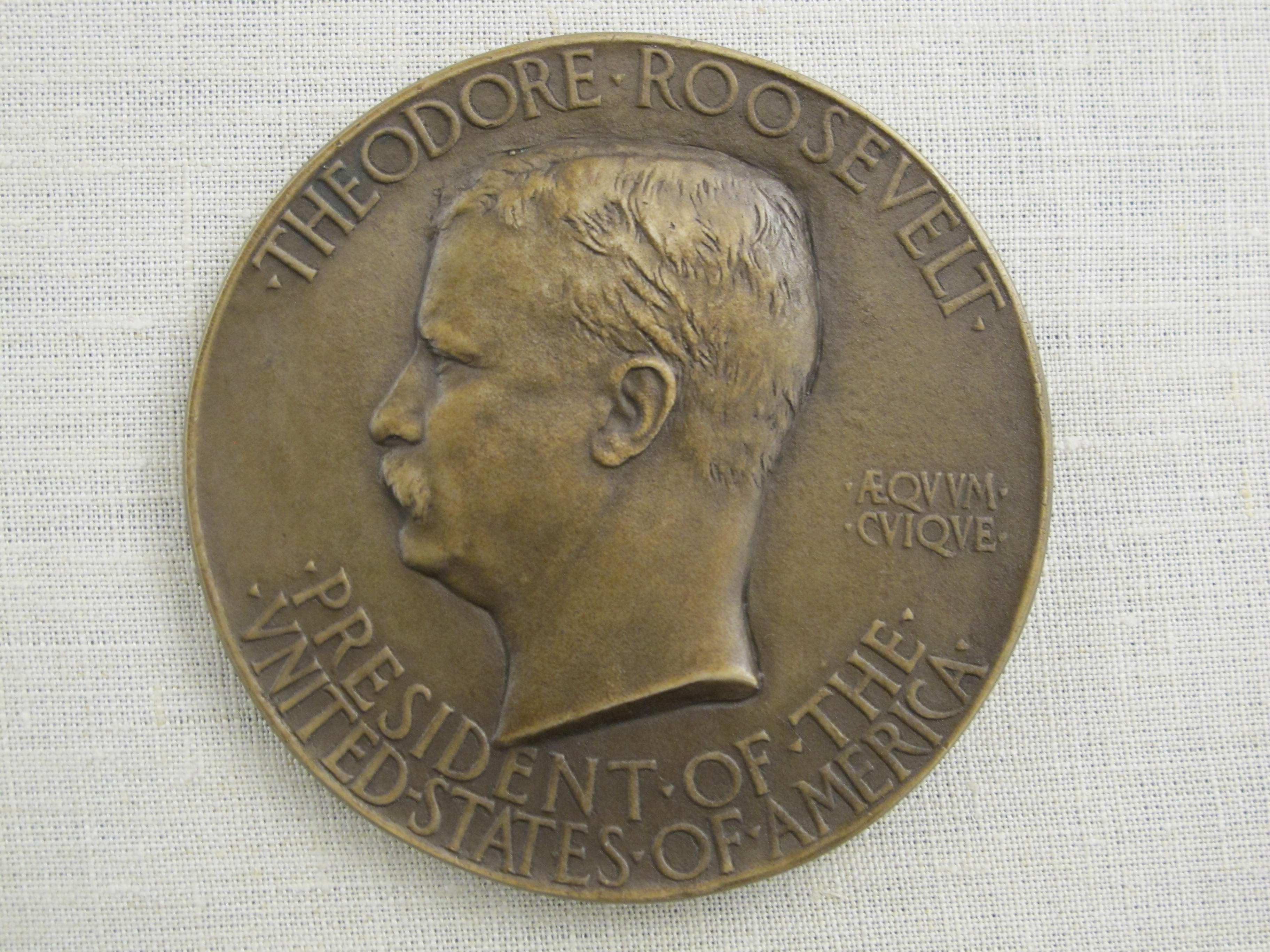 The front side of President Theodore Roosevelt's 1905 bronze inauguration medal. The medal was designed by Augustus Saint-Gaudens and produced by Tiffany & Co.